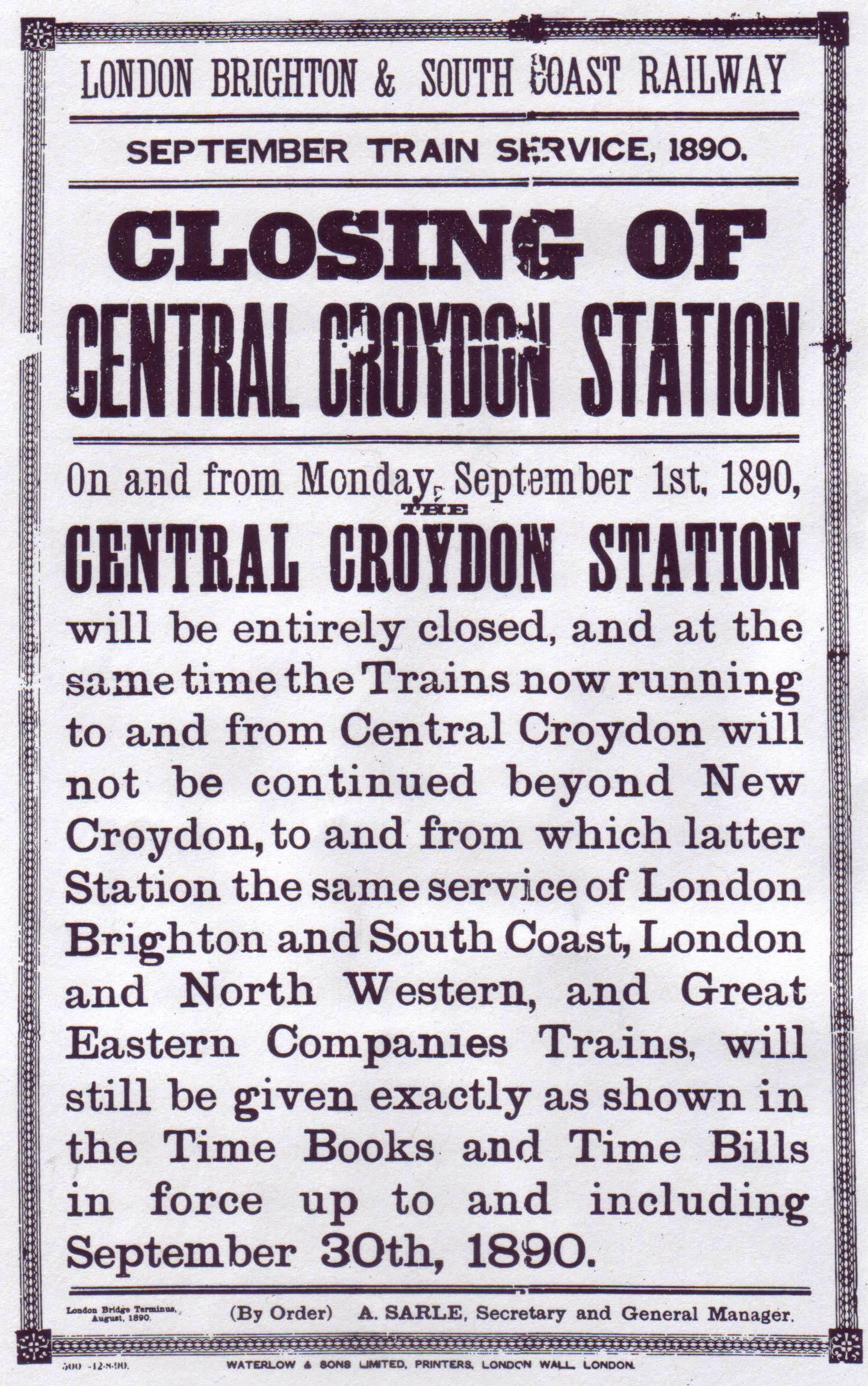 Poster announcing the closure of Croydon Central Railway Station, London